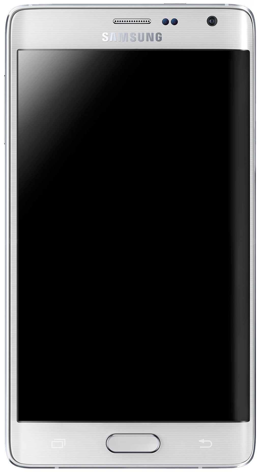 Samsung Galaxy Note Edge render